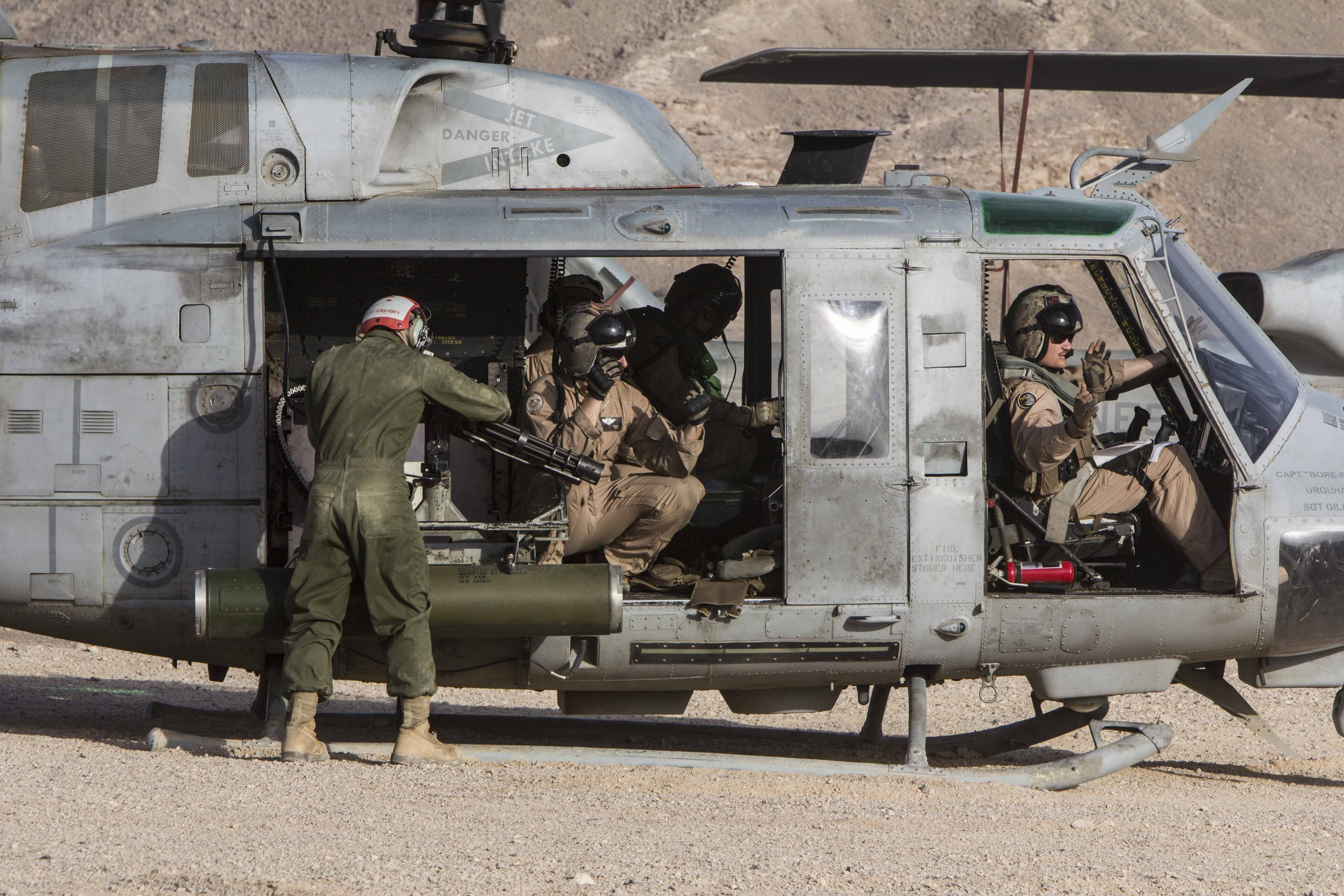 A UH-1N Huey gunship assigned to Marine Medium Tiltrotor Squadron (VMM) 266 (Reinforced), 26th Marine Expeditionary Unit (MEU) lands at a forward arming and refueling point during an exercise in the 5th Fleet area of responsibility, April 29, 2013. The 26th MEU is currently deployed as part of the Kearsarge Amphibious Ready Group to the 5th Fleet area of responsibility. The 26th MEU operates continuously across the globe, providing the president and unified combatant commanders with a forward-deployed, sea-based quick reaction force. The MEU is a Marine Air-Ground Task Force capable of conducting amphibious operations, crisis response, and limited contingency operations. (U.S. Marine Corps photo by Cpl. Michael S. Lockett/Released) Unit: 26th Marine Expeditionary Unit